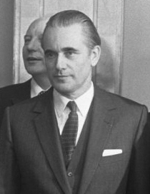 Jacques Chaban-Delmas